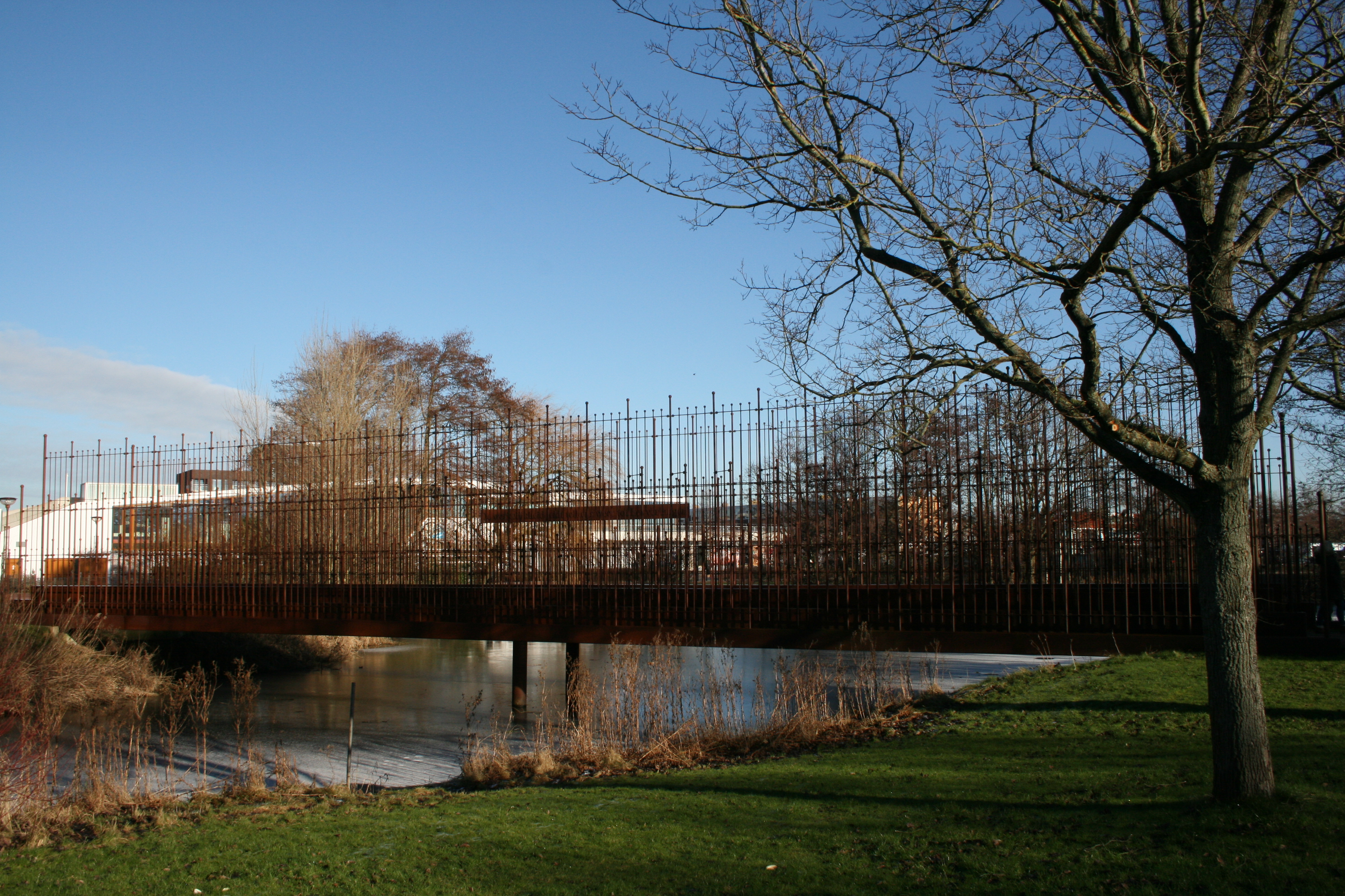 Bridge